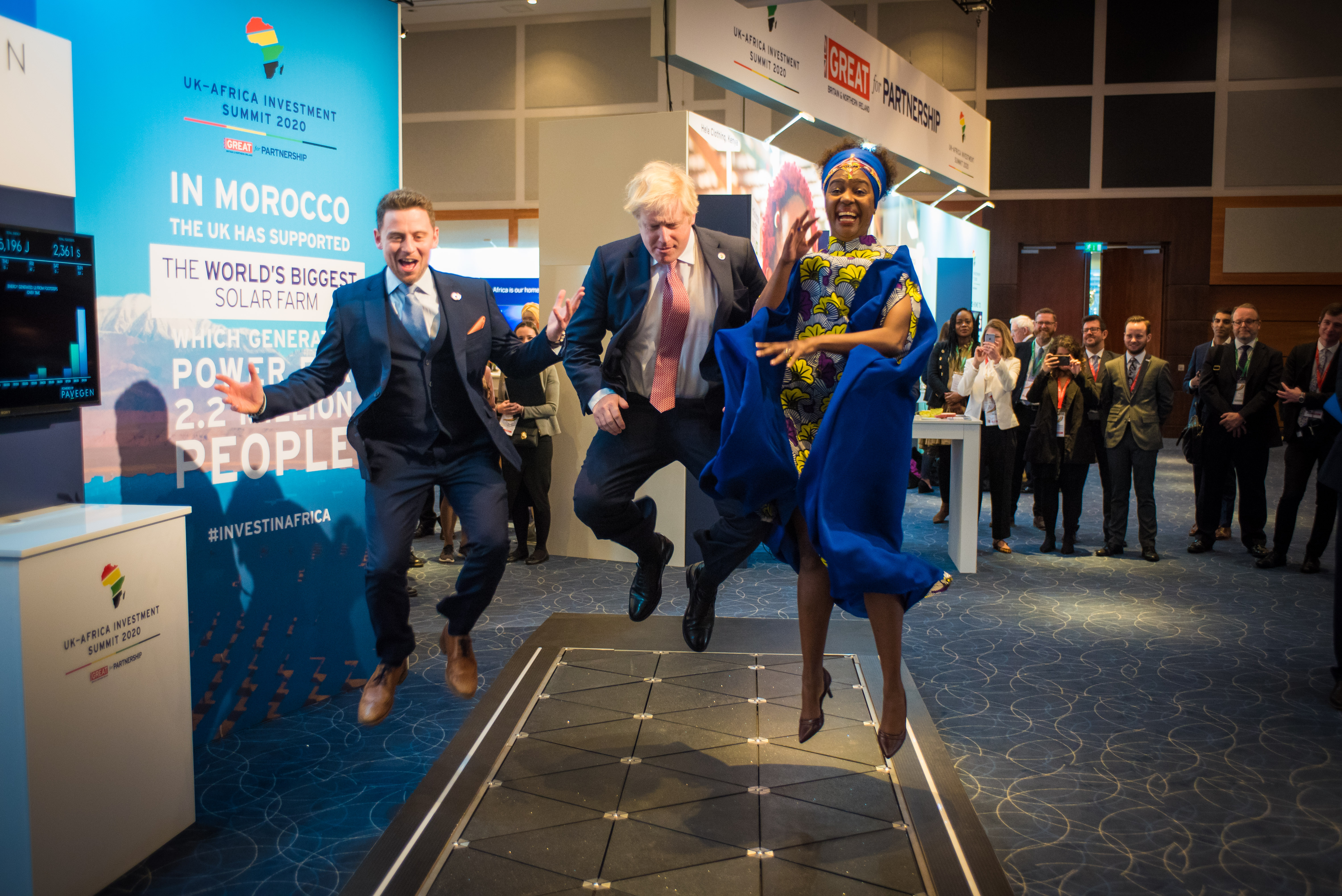 Boris Johnson with Ciiru Waweru Waithaka in London at the UK-Afrtica Investment Summit